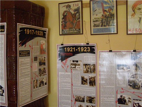 В Експозиції музею Плакатів